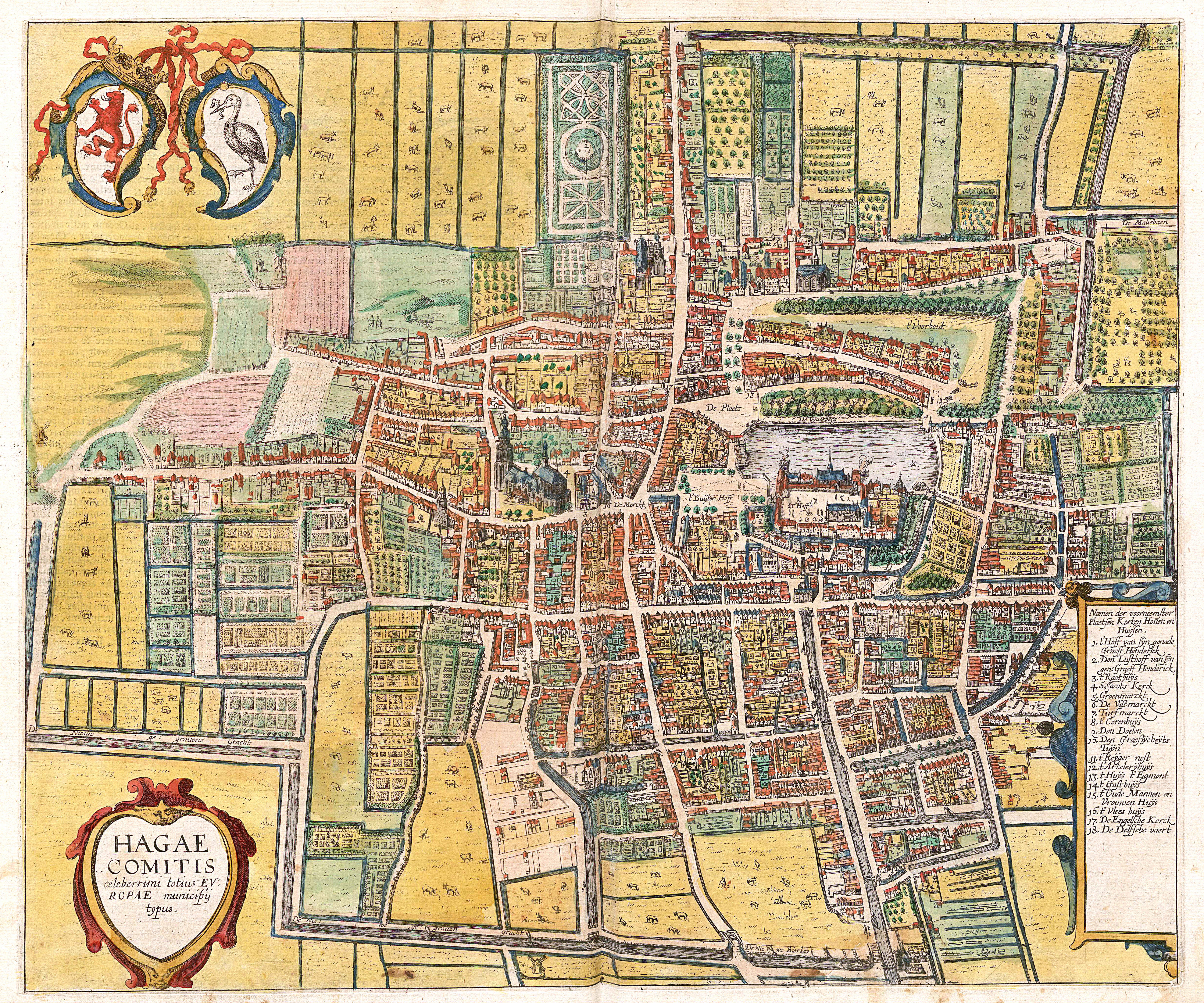 Map of The Hague in 1618. From the book 'Civitates Orbis Terrarvm', Volume 6. Georg Braun and Franz Hogenberg.